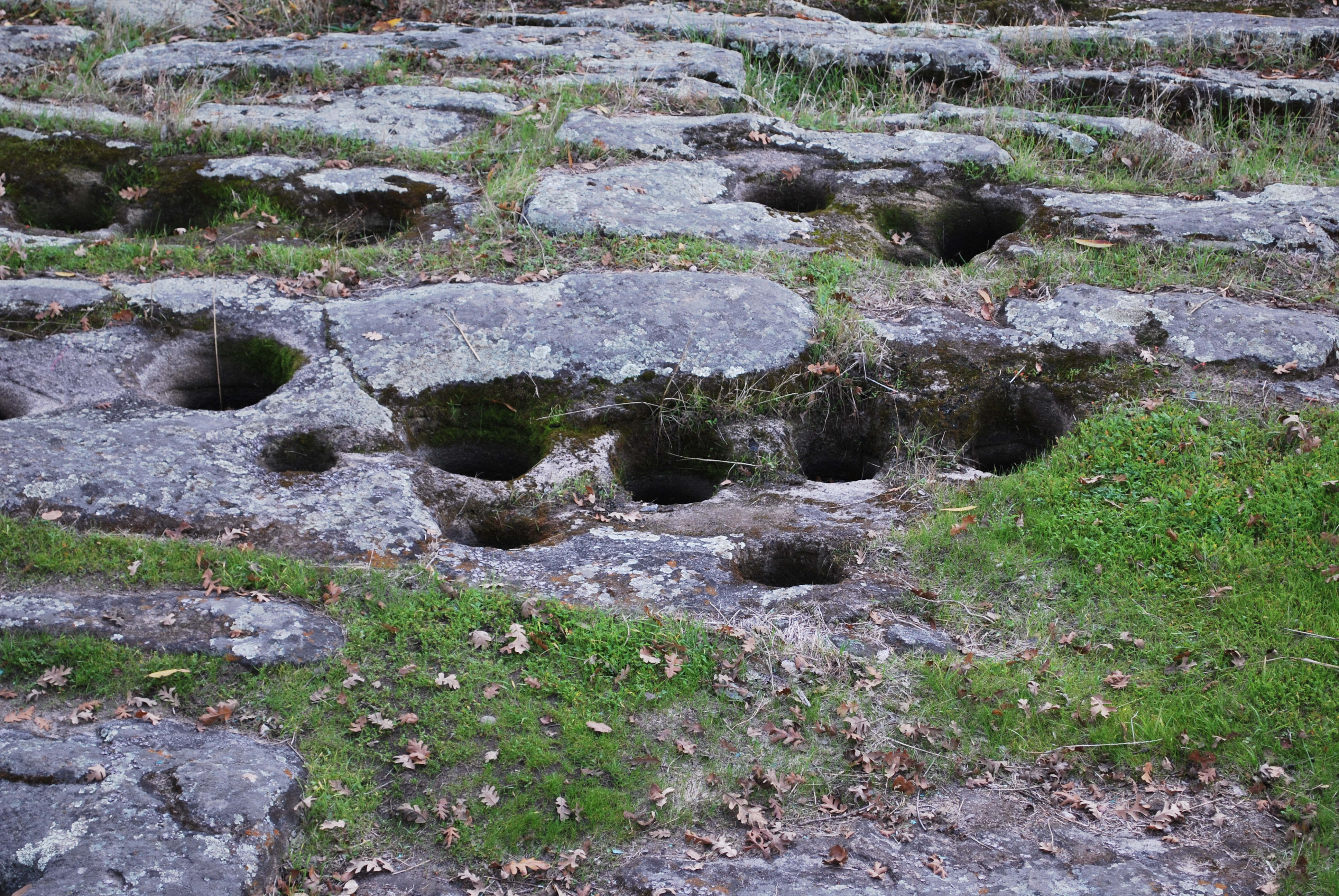 The Muidu Indians used grinding stones (or Bedrock Mortars) as a cooking utensils. Along with a stone pestle these holes were used to grind acorns and grain as part of the food preparation process. This area is part of the Maidu Interpretive Center.